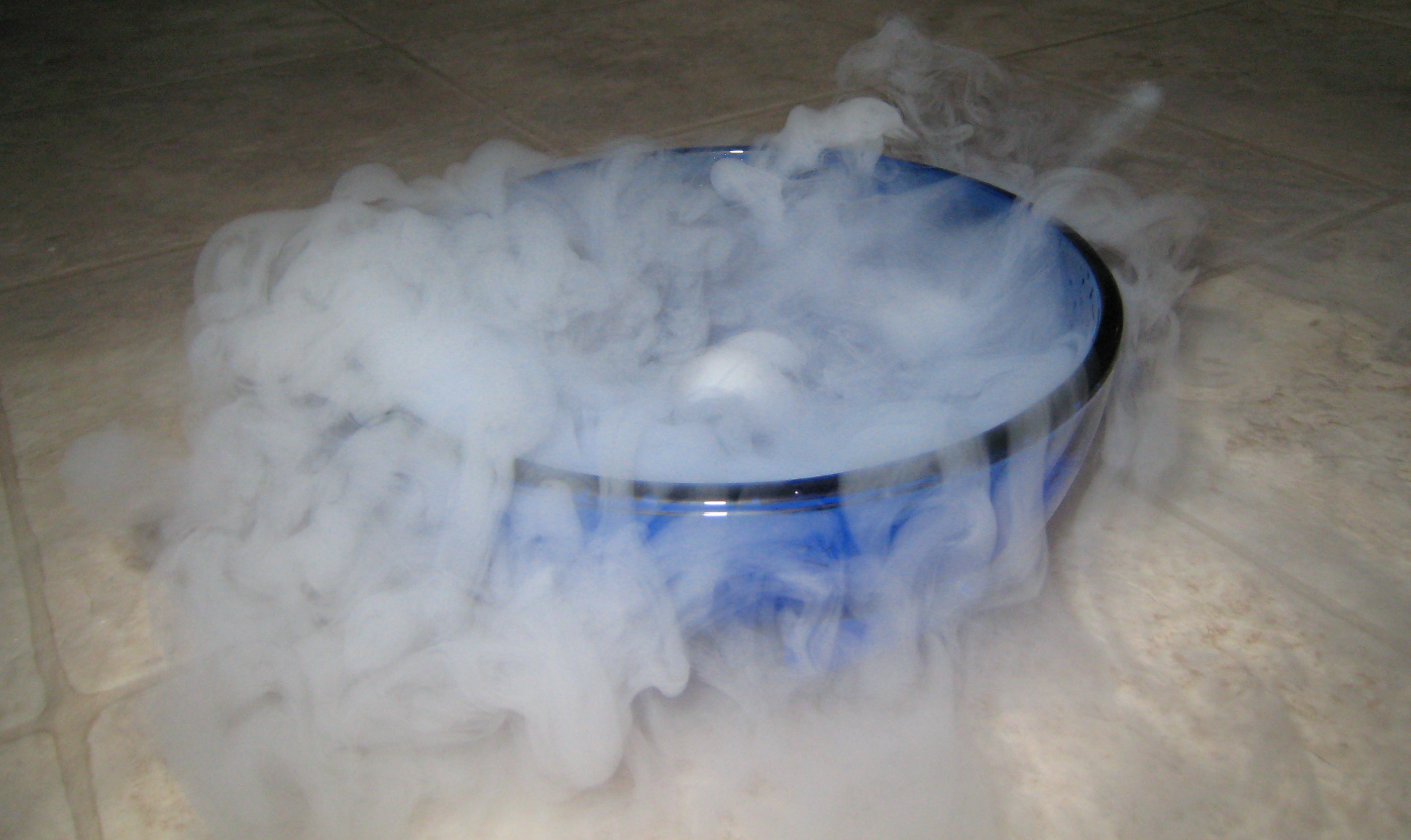 Fun with dry ice. We received a package today that was packed with some dry ice. Oh, instant fun.